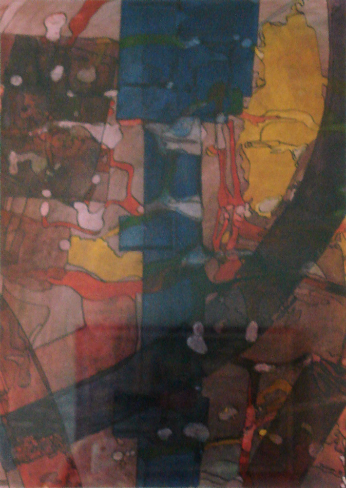 Picture of István Tellinger, Hungarian painter, Miskolc, Hungary